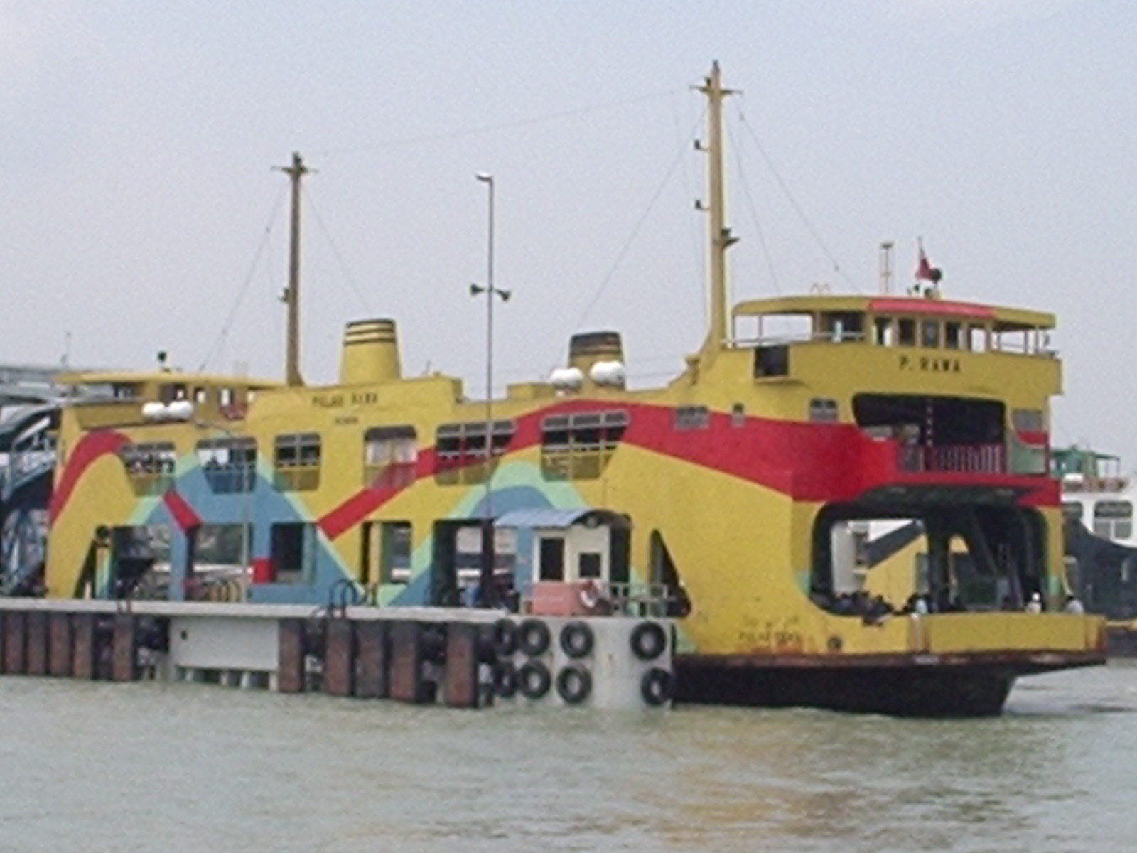 A Penang ferry docking at the Butterworth jetty